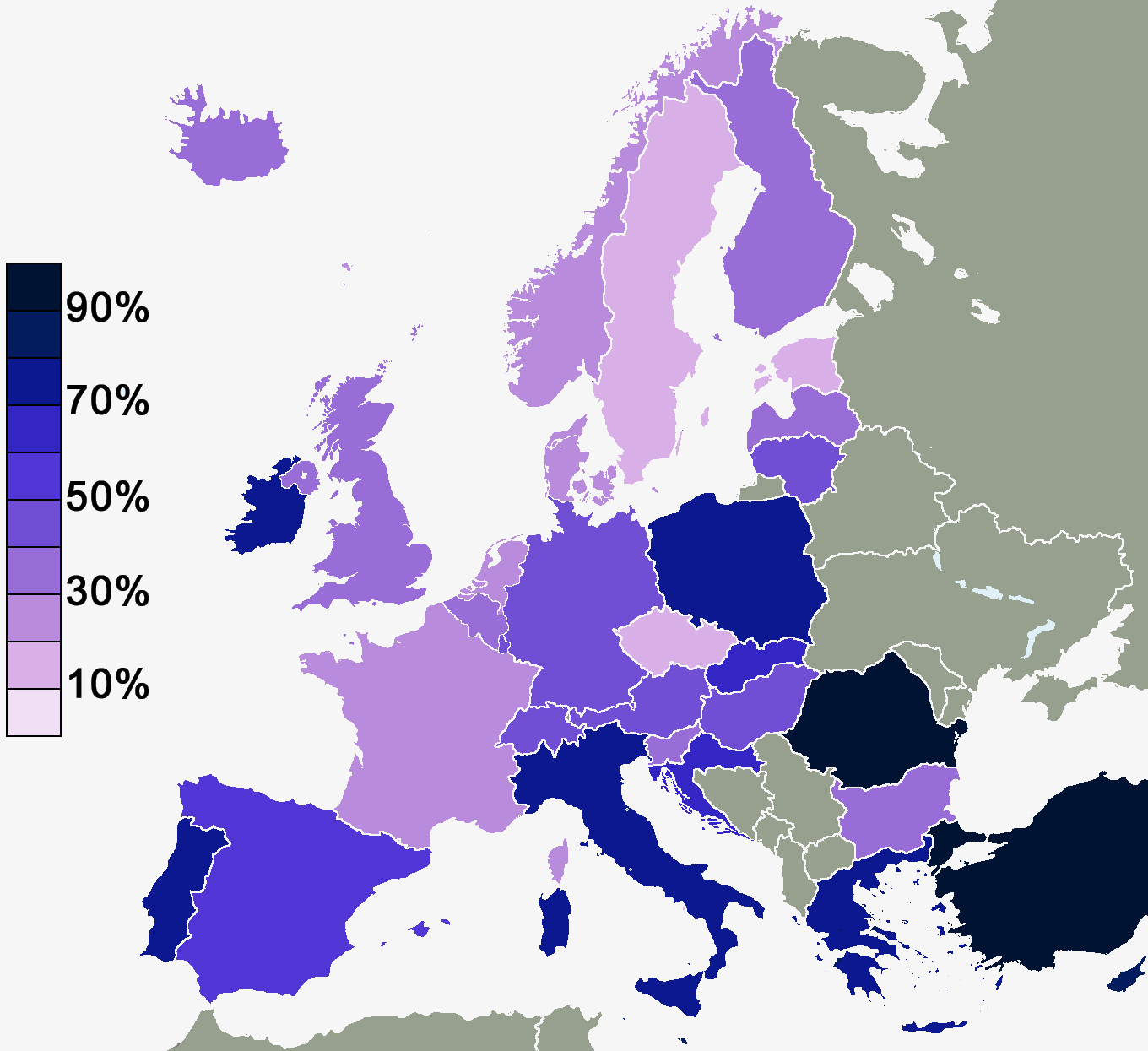 This map shows the result of an Eurobarometer poll conducted in 2010. The colors indicated the percentage of people in each country who answered "I believe there is a God" in the interview. The countries marked in grey were not included in the poll.